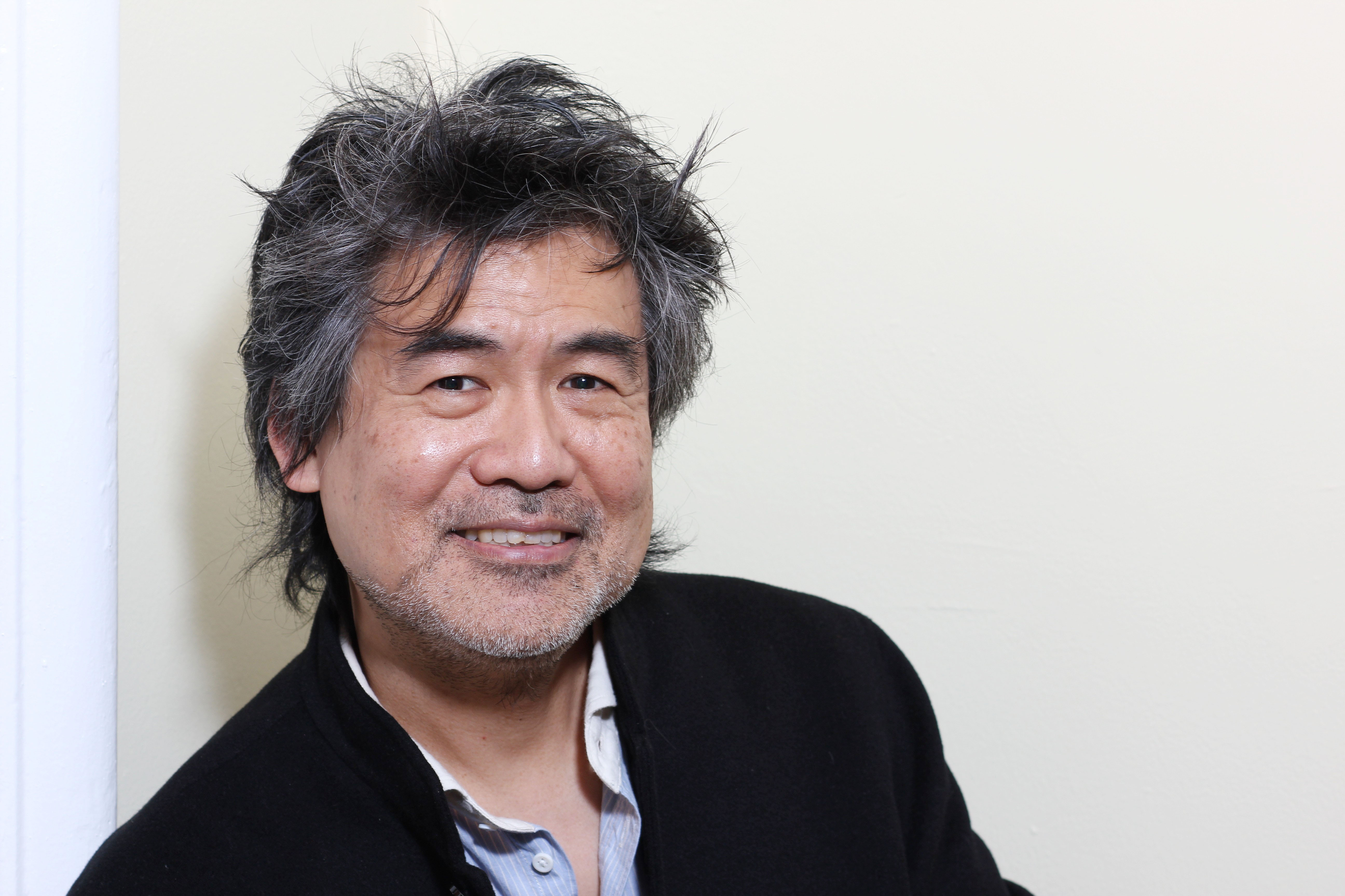 Playwright David Henry Hwang at home in Brooklyn, NY in 2013. Photo by Lia chang